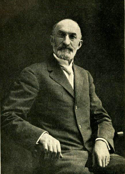 LDS Church president Heber J. Grant, 1919